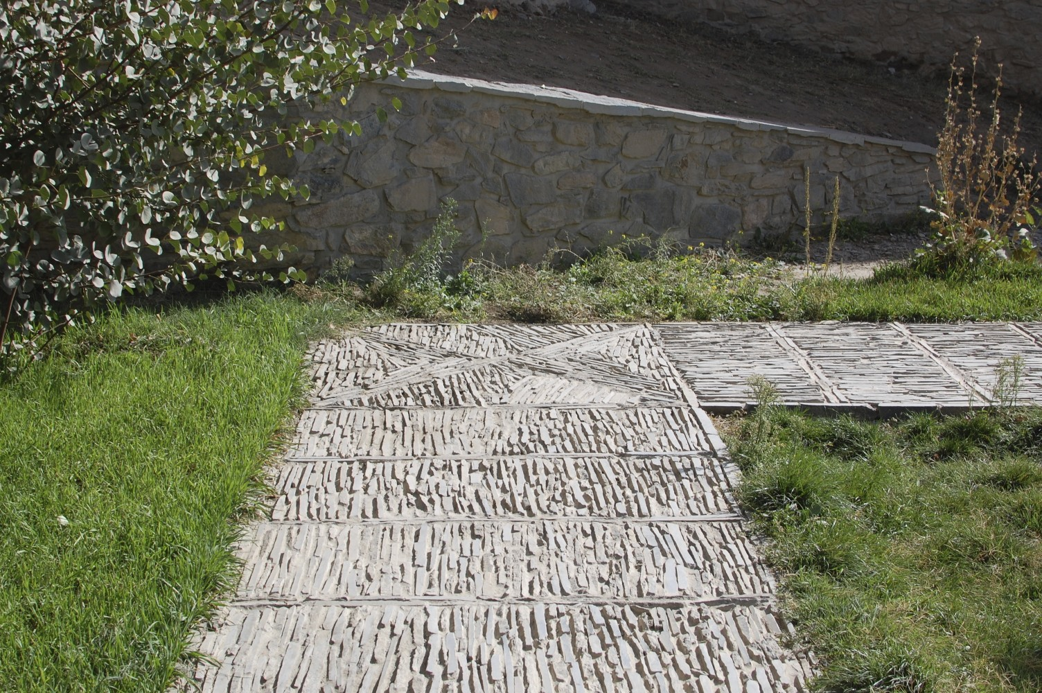 The walking path or walk way inside Babur Gardens in Kabul, Afghanistan.